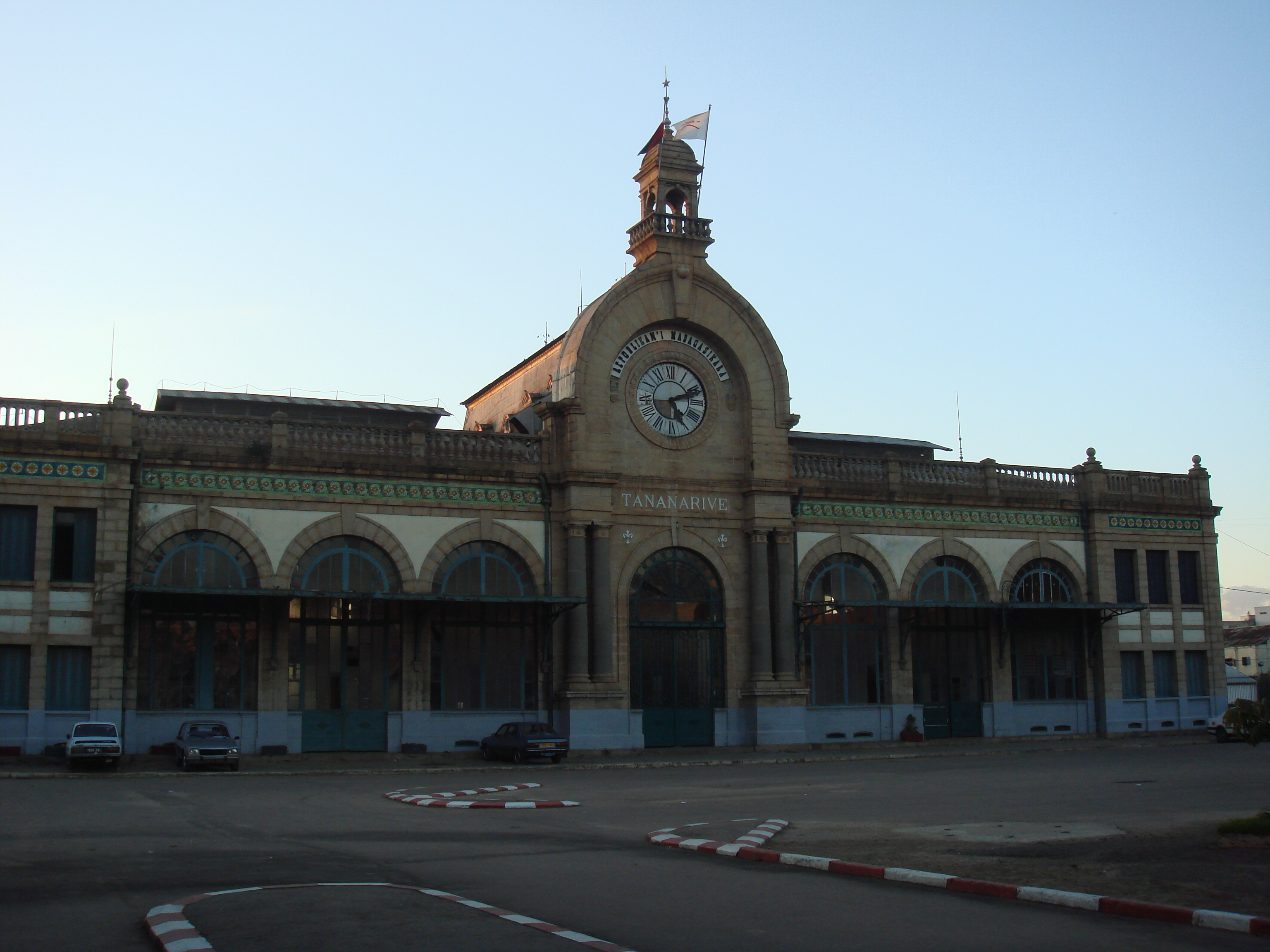 The old railroad station of Antananarivo.